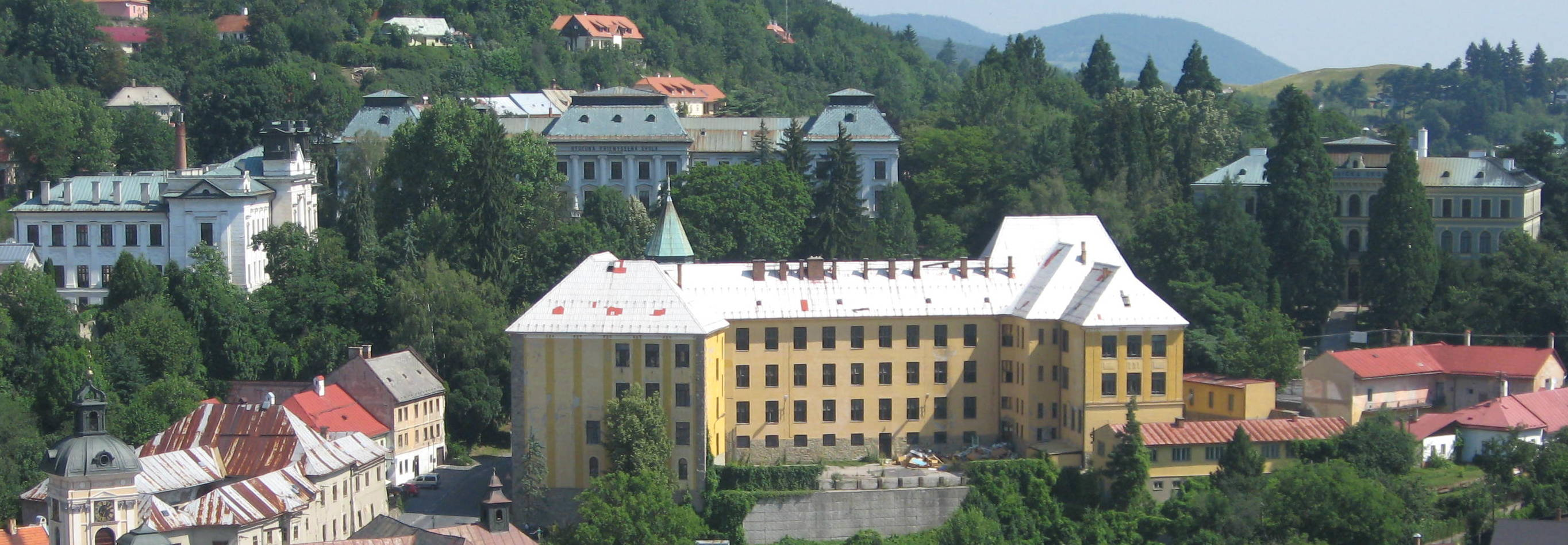 Former Academy of Mining and Forestry, Banksa Stiavnica, Slovakia